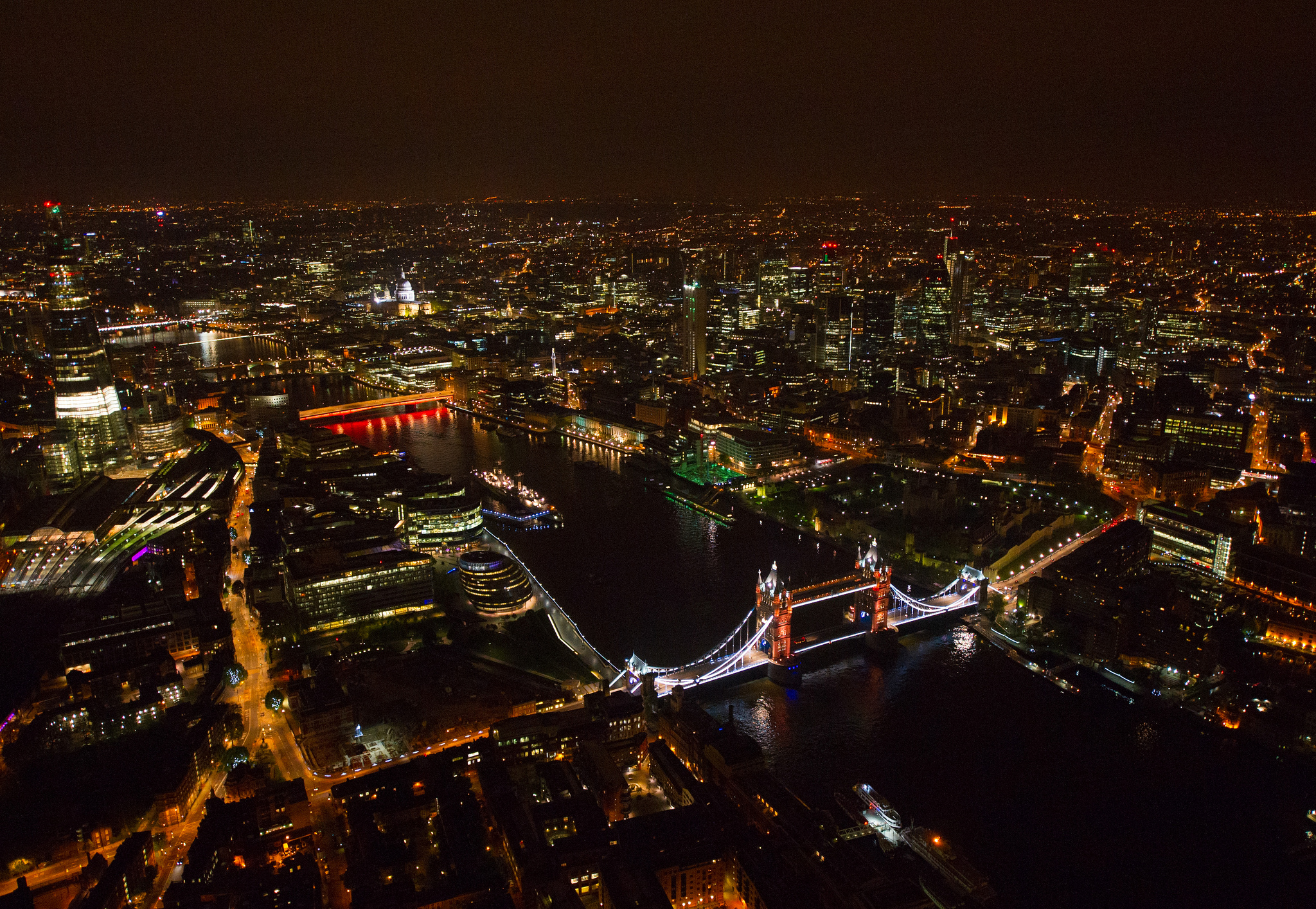 London at Night